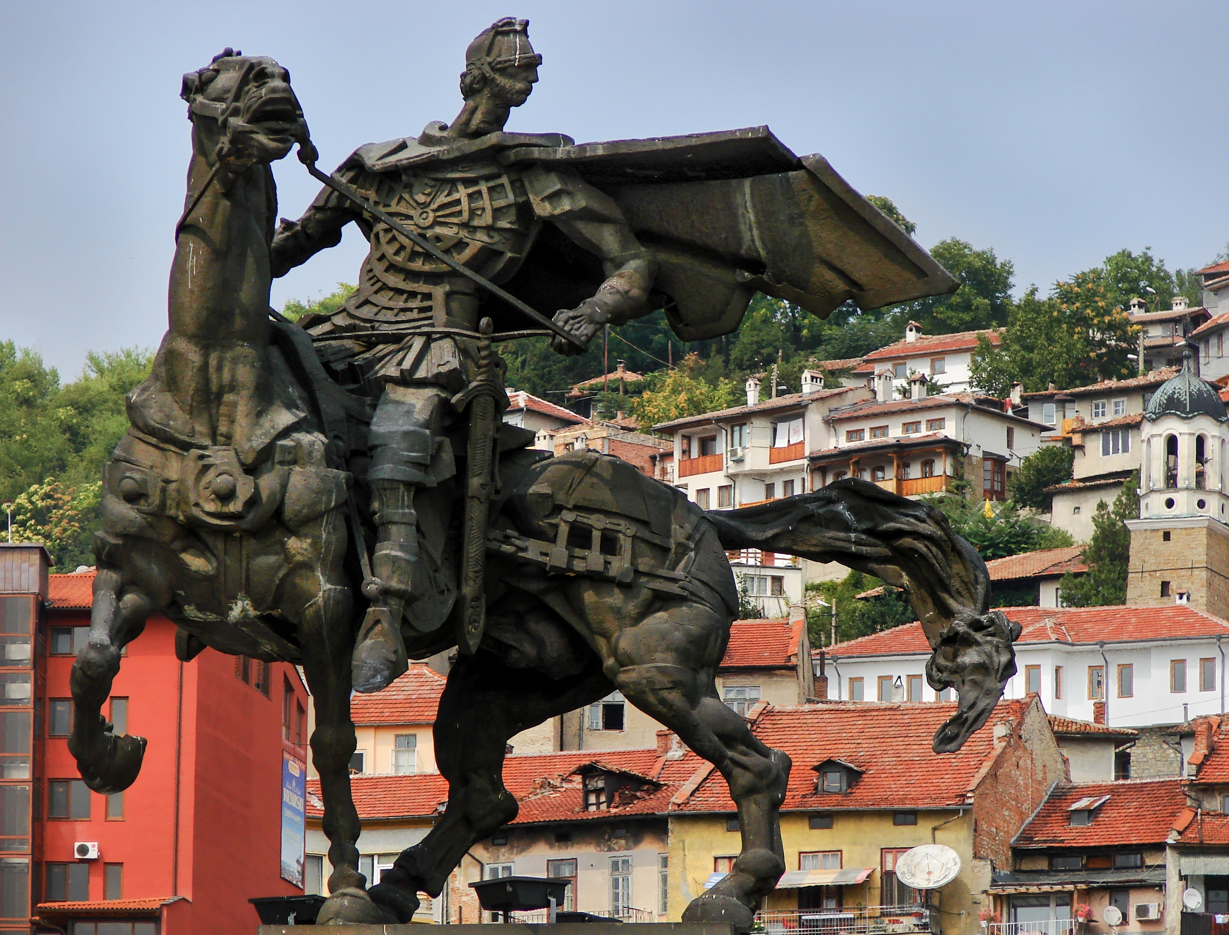 Historic village of Veliko Tarnovo, a fragment of the "Monument of the Asens."